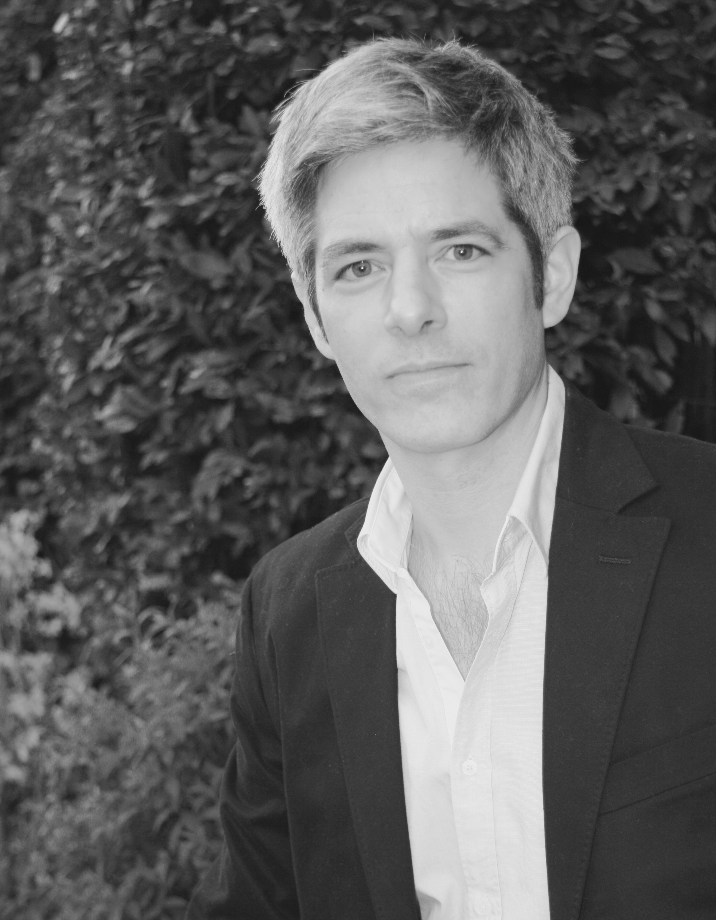 Julio Perillán